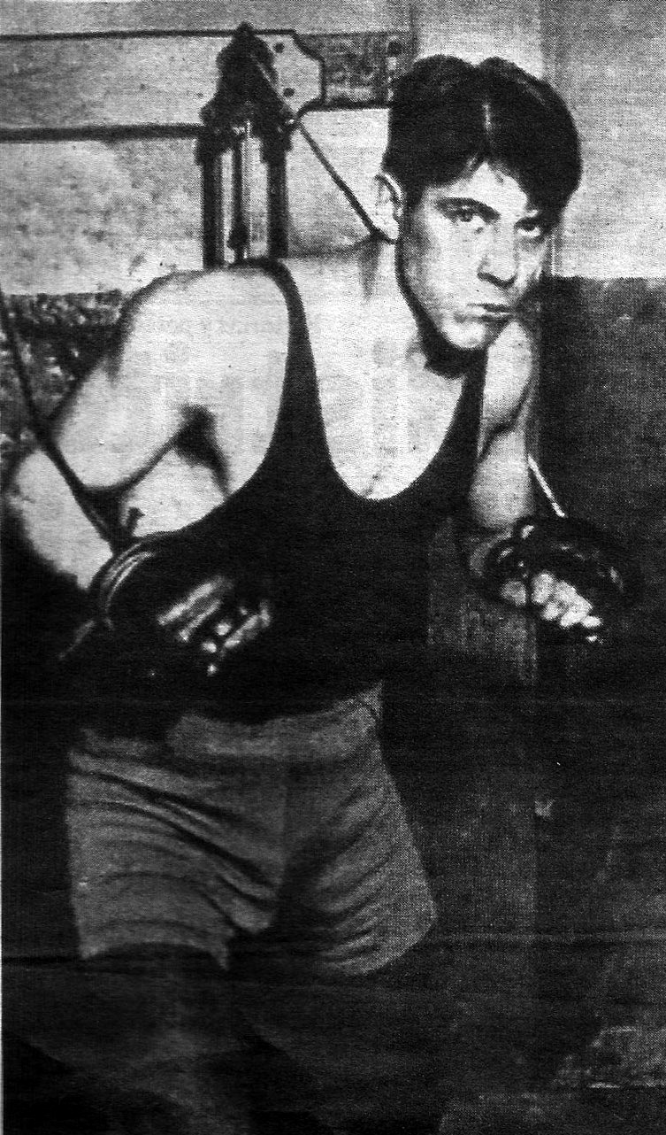 Argentine boxer Justo Suárez, photographed while training in the gym.